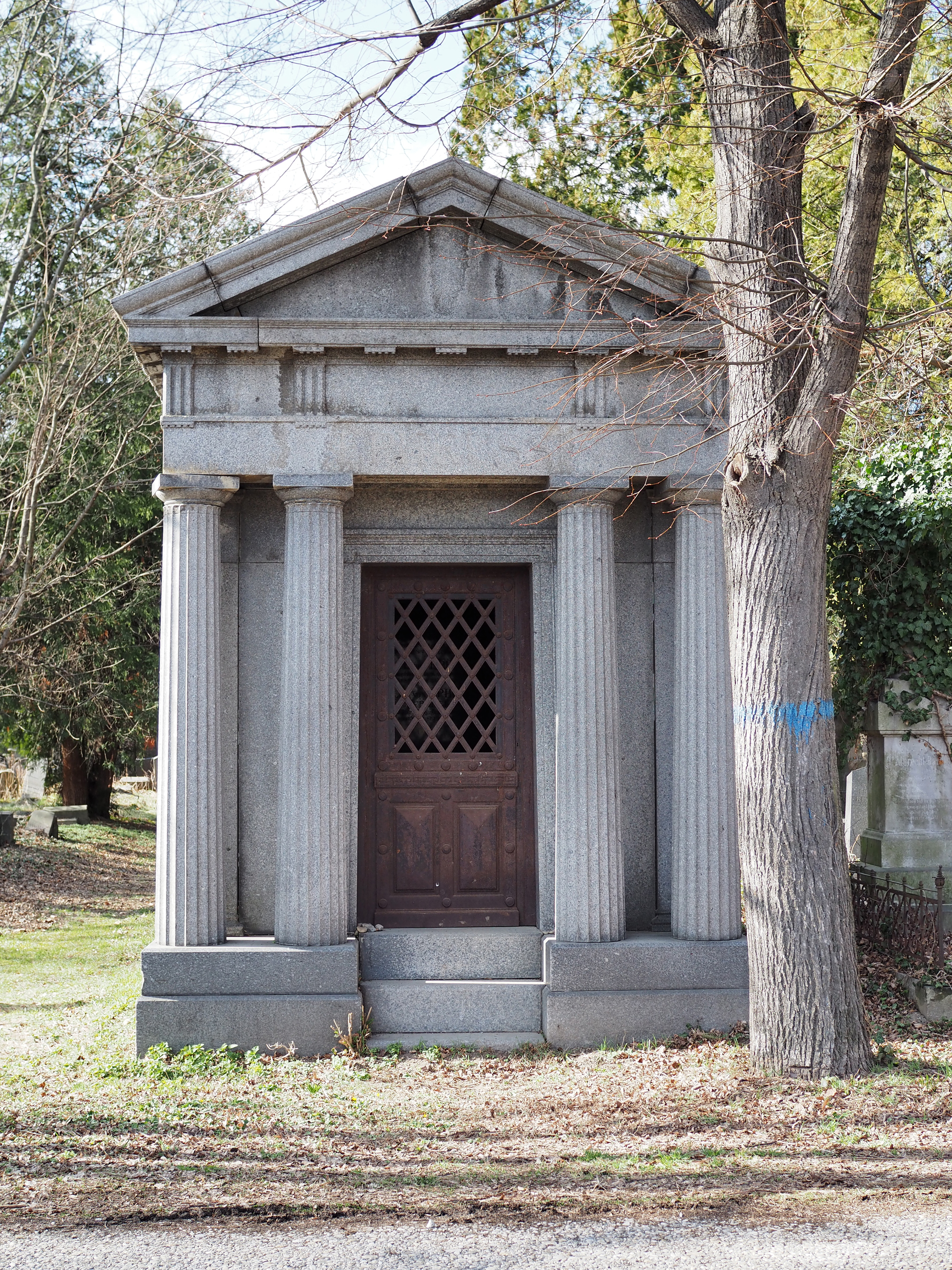 Mausoleum of the Ephrussi family with Joachim Ephrussi (1792–1864), Ignace von Ephrussi (1829–1899) and Emilie von Ephrussi (née Porges, 1836–1900) in the old Jewish section of the Vienna Central Cemetery (8/62/49)